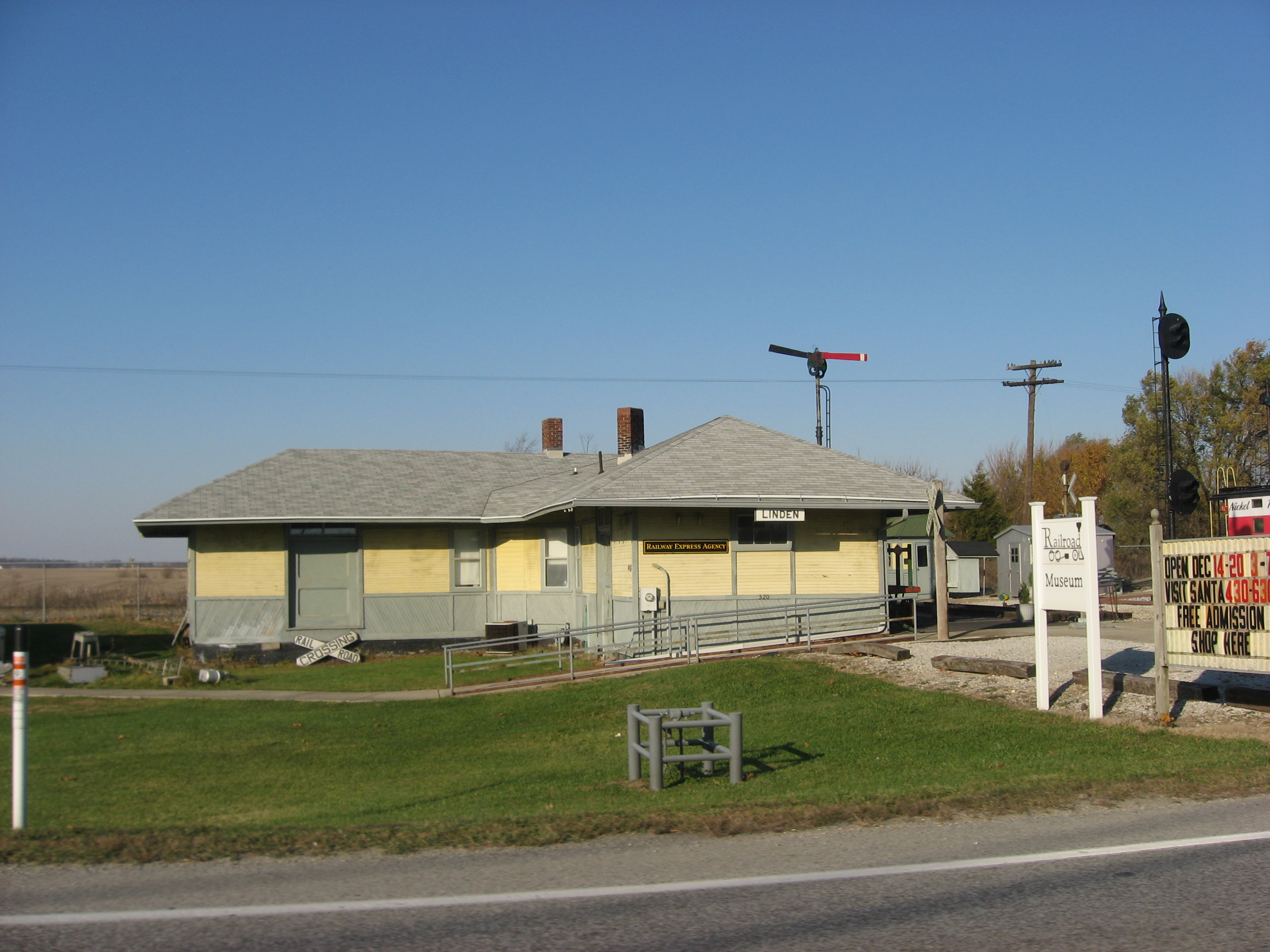 Street view of the Linden Depot, located at 202 N. James Street (U.S. Route 231) in northern Linden, Indiana, United States. Built in 1905, it is listed on the National Register of Historic Places.